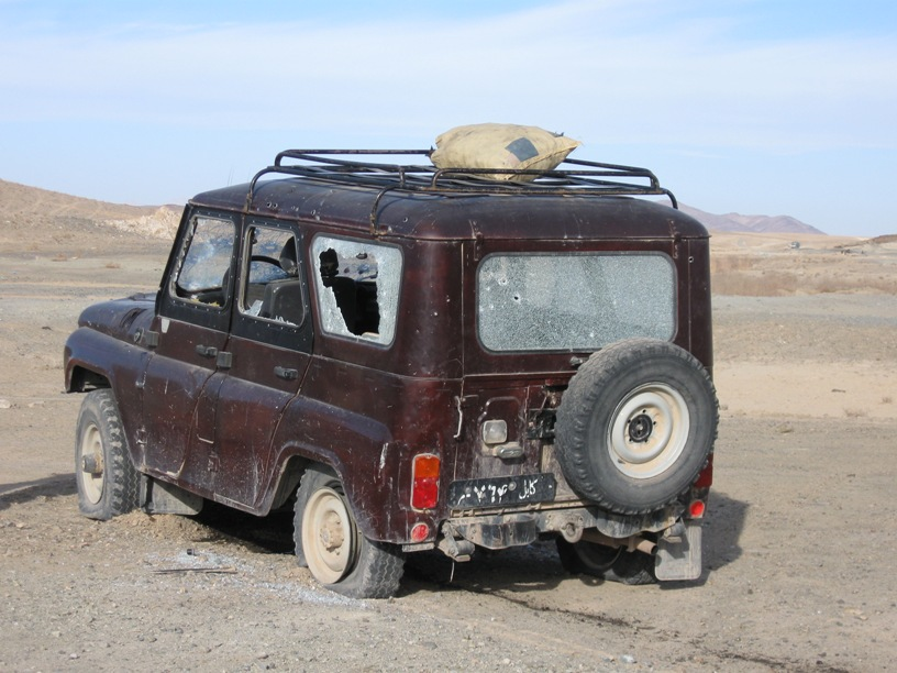 Kandahar, Afghanistan: ISAF forces successfully stopped a vehicle born IED suicide attack on Januar 1st of 2009. Canadian forces from Task Force Kandahar fired rounds after the insurgent tried to run his vehicle into their patrol. After searching the vehicle, they discovered three large explosive devices in the vehicle. (ISAF PHOTO)